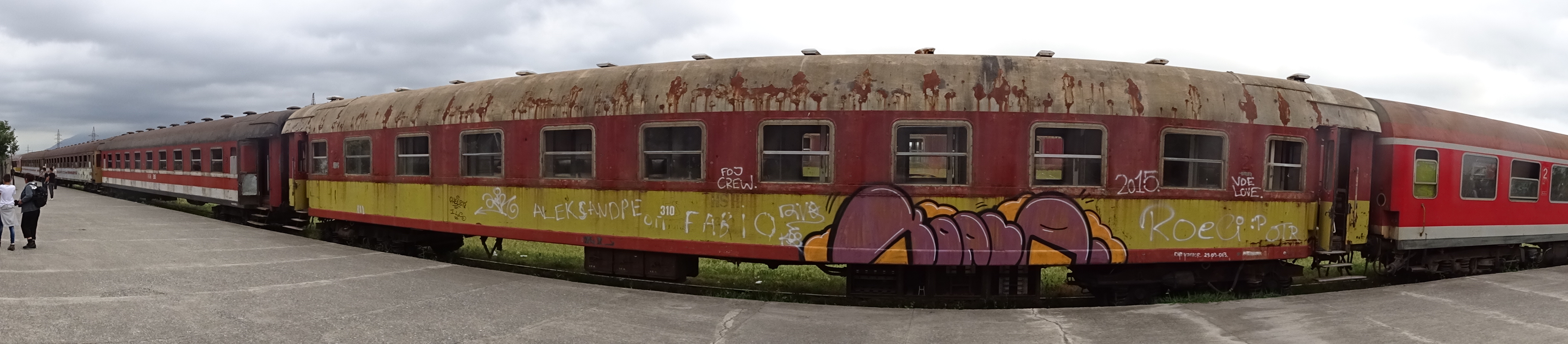 a train in albania. Line from Vora to Shodra.